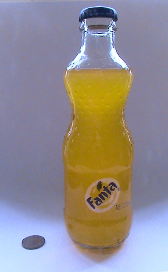 Fanta as sold in "stubby" 200ml glass bottle available throughout China. Note US penny for scale